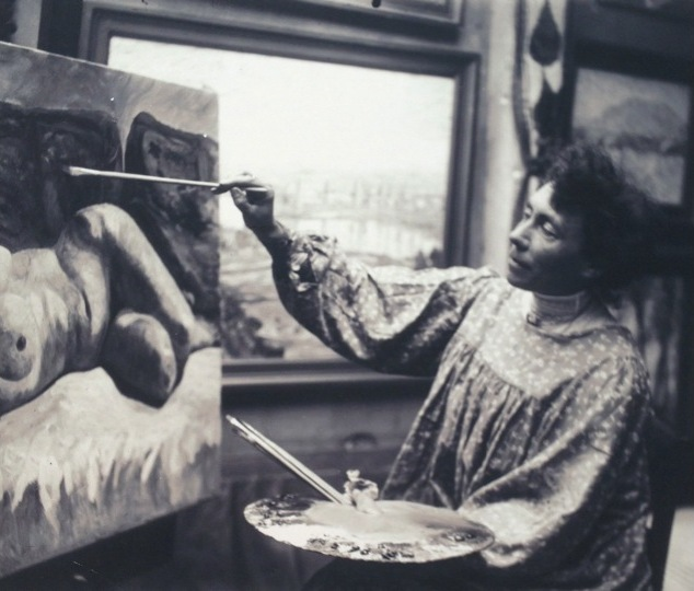 Portrait of Georgette Agutte (1867-1922) in atelier